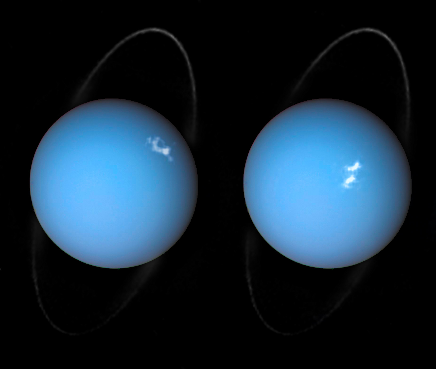 Ever since Voyager 2 beamed home spectacular images of the planets in the 1980s, planet-lovers have been hooked on extra-terrestrial aurorae. Aurorae are caused by streams of charged particles like electrons, that come from various origins such as solar winds, the planetary ionosphere, and moon volcanism. They become caught in powerful magnetic fields and are channelled into the upper atmosphere, where their interactions with gas particles, such as oxygen or nitrogen, set off spectacular bursts of light. The alien aurorae on Jupiter and Saturn are well-studied, but not much is known about the aurorae of the giant ice planet Uranus. In 2011, the NASA/ESA Hubble Space Telescope became the first Earth-based telescope to snap an image of the aurorae on Uranus. In 2012 and 2014 astronomers took a second look at the aurorae using the ultraviolet capabilities of the Space Telescope Imaging Spectrograph (STIS) installed on Hubble. They tracked the interplanetary shocks caused by two powerful bursts of solar wind travelling from the Sun to Uranus, then used Hubble to capture their effect on Uranus’ aurorae — and found themselves observing the most intense aurorae ever seen on the planet. By watching the aurorae over time, they collected the first direct evidence that these powerful shimmering regions rotate with the planet. They also re-discovered Uranus’ long-lost magnetic poles, which were lost shortly after their discovery by Voyager 2 in 1986 due to uncertainties in measurements and the featureless planet surface. This is a composite image of Uranus by Voyager 2 and two different observations made by Hubble — one for the ring and one for the aurorae.